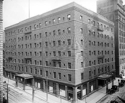 Fort Pitt Hotel (Pittsburgh), 1905, shortly after the grand opening.